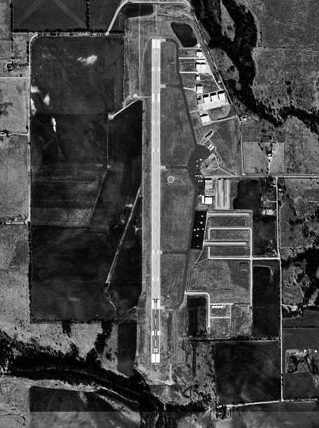 USGS digital orthophoto of Denton Municipal Airport in Denton, Texas, United States